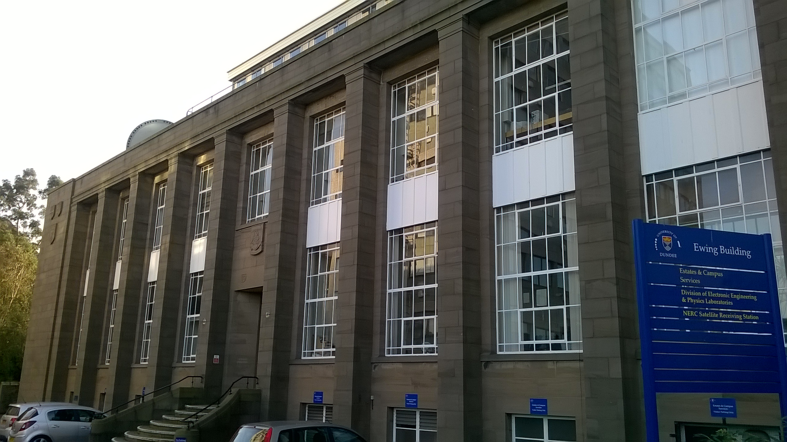 The Ewing Building, in the city campus of the University of Dundee, Scotland.